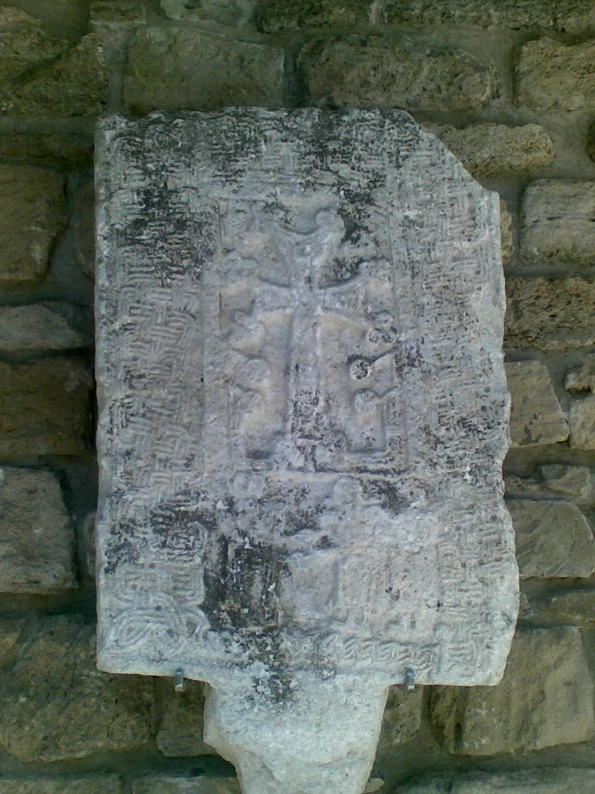 Tipic Armenian khachkar in Baku